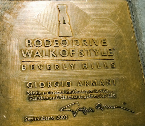 This is a photograph I took of Giorgio Armani's Honor on Rodeo Drive's Walk Of Style in Beverly Hills.